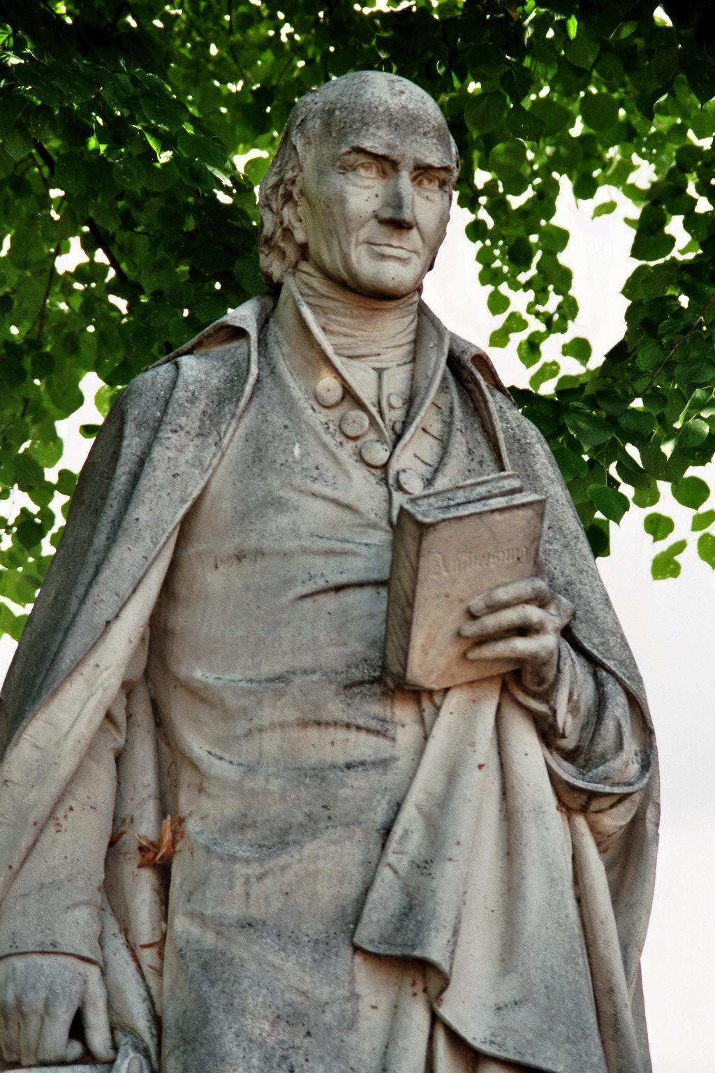 Statue of Bernhard Heinrich Overberg in Voltlage, Samtgemeinde Neuenkirchen, Landkreis Osnabrück, Lower Saxony, Germany.